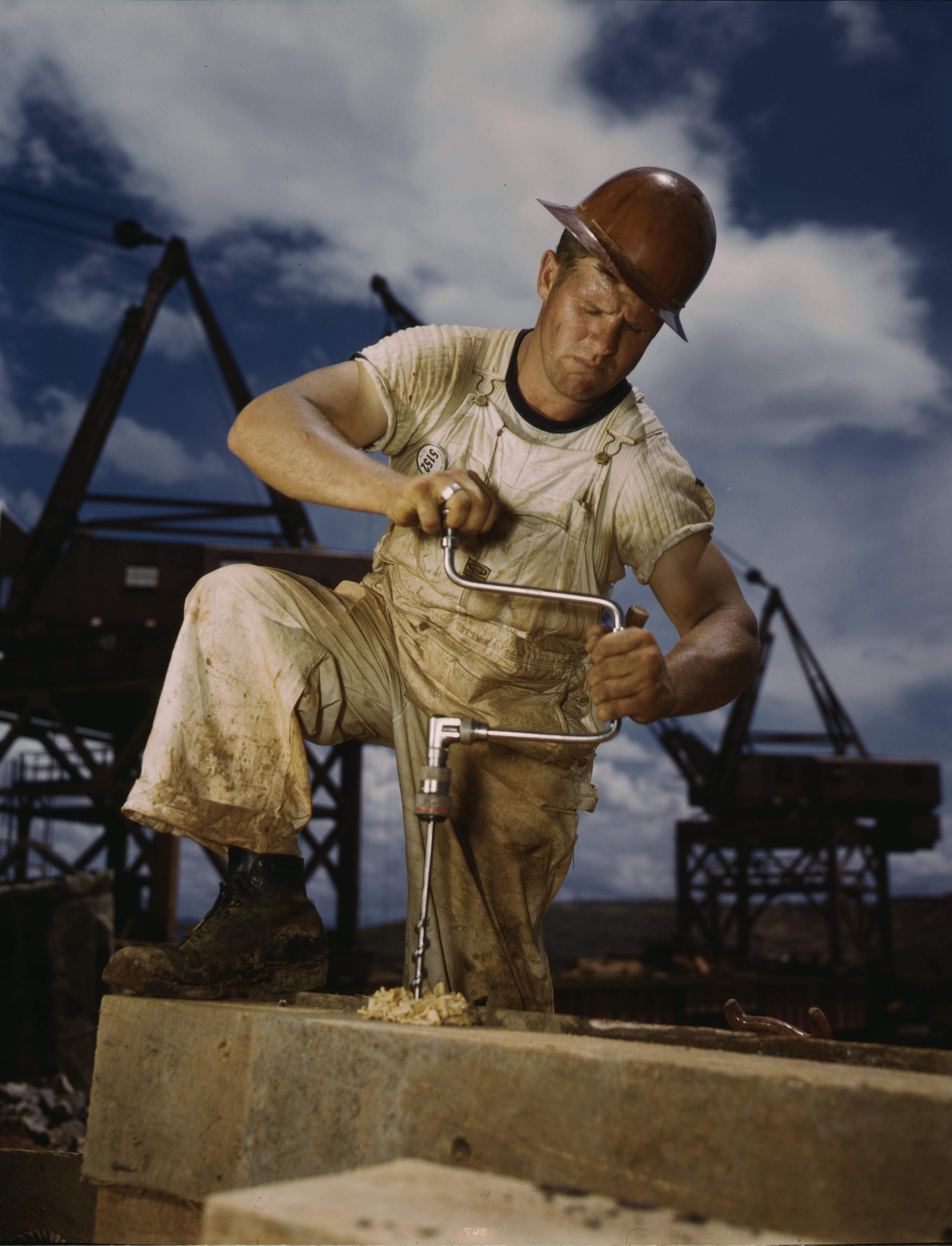 Carpenter at work on Douglas Dam, Tennessee (TVA)